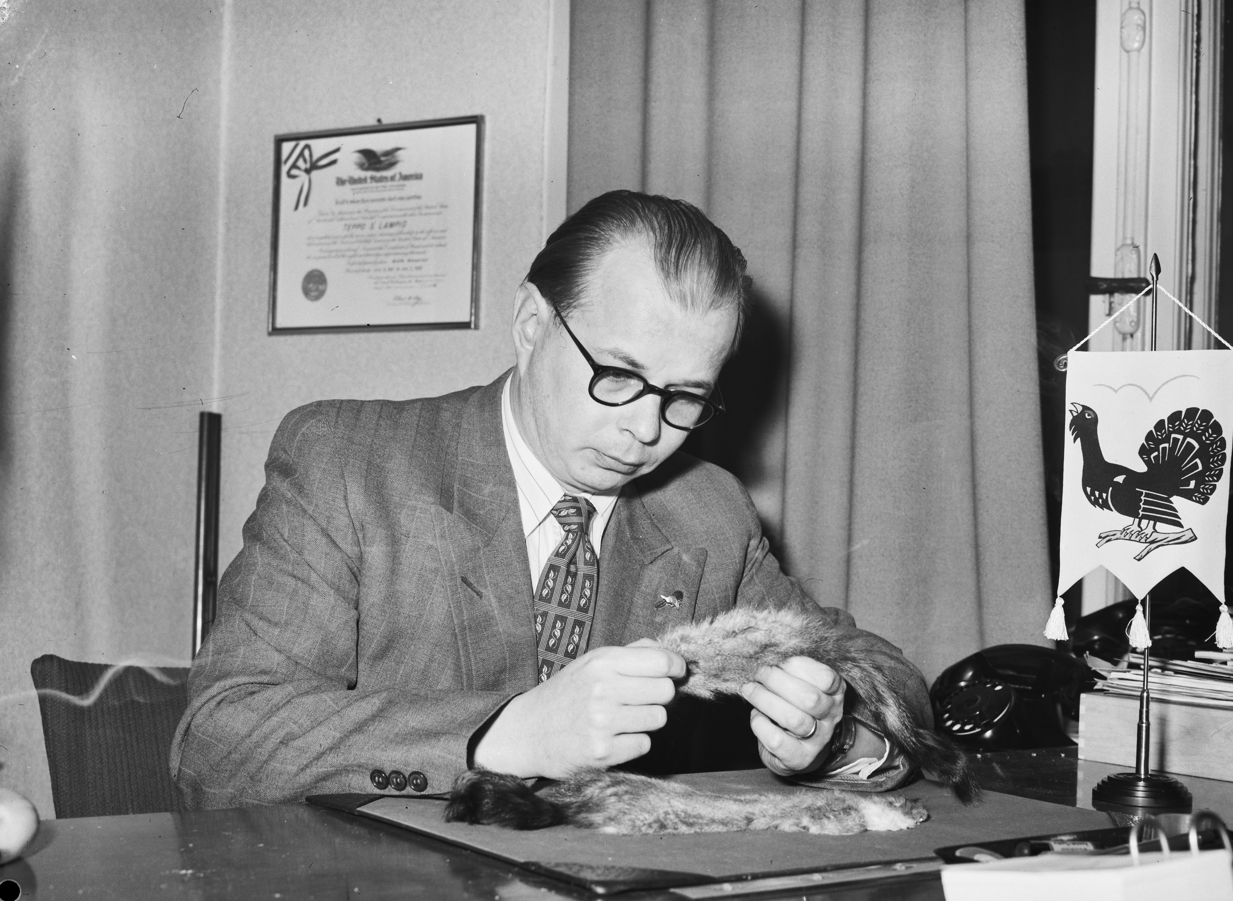 Photograph of the Finnish biologist Teppo Lampio (1921–1983) at his workplace in Helsinki.